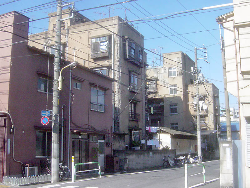 Minowa Apartments, Tokyo. Pictured by Nekosuki600 in 15 January, 2006.